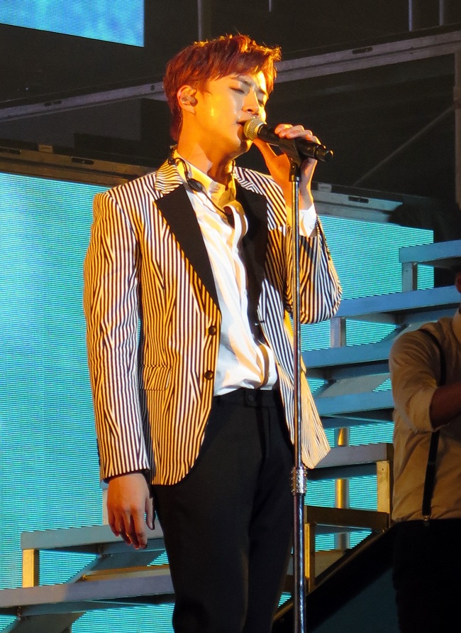 2PM Go Crazy World Tour, Prudential Centre, Newark, New Jersey, U.S.A.